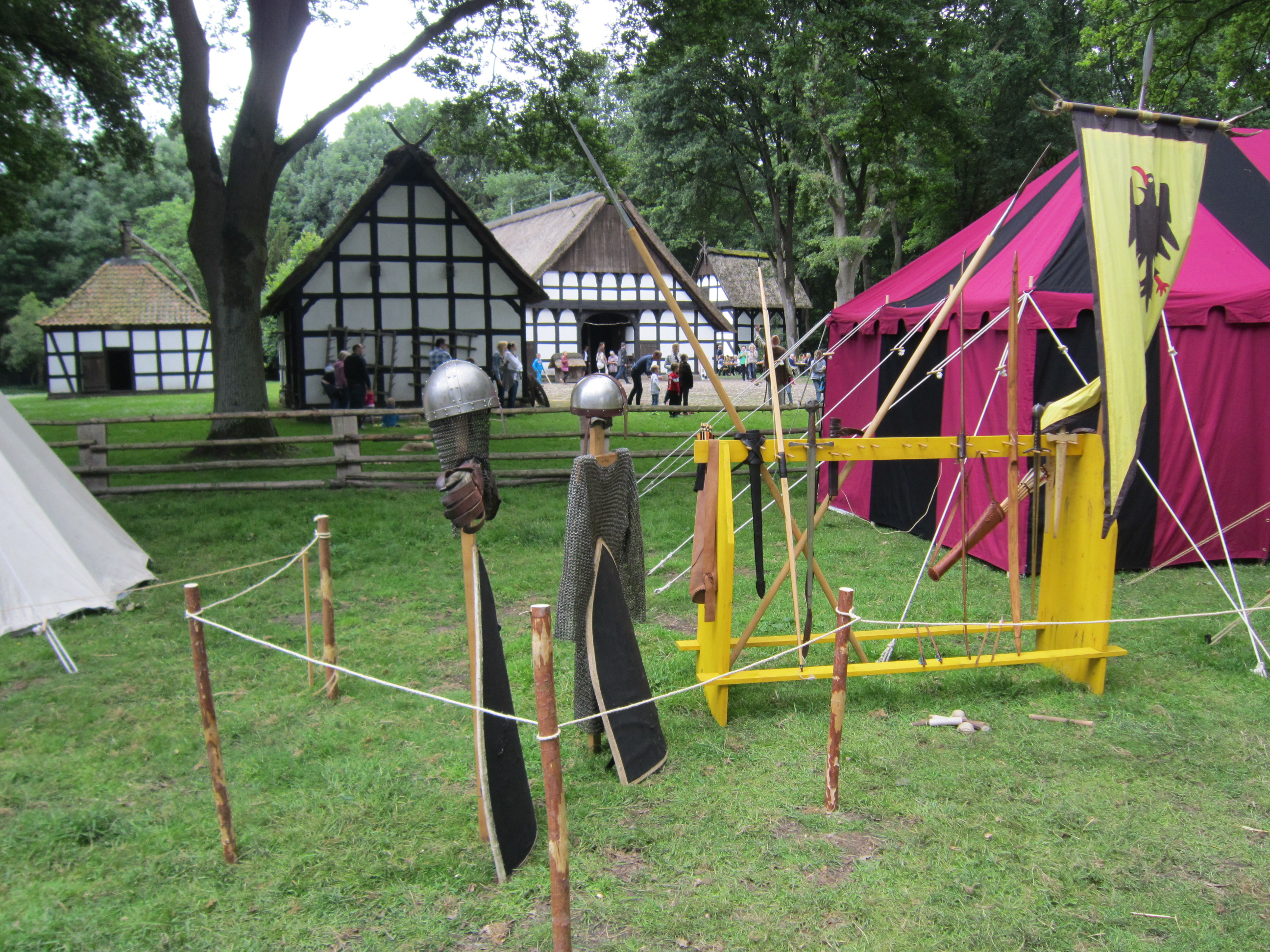 "Medieval Reenactments" in the open air museum Rahden 2014